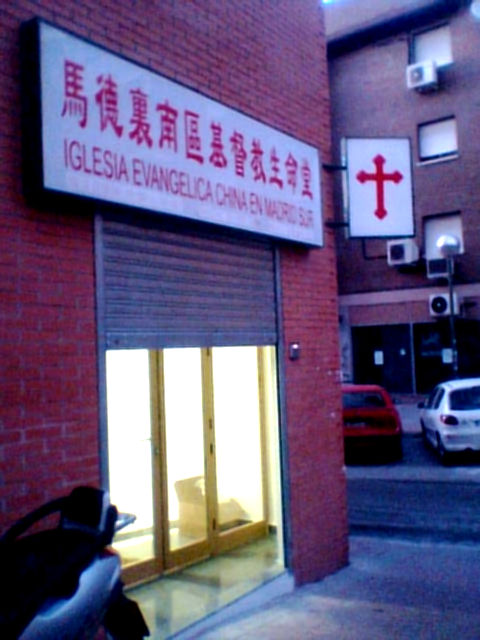 CHINESE EVANGELIC CHURCH IN MADRID SUR (South Madrid)